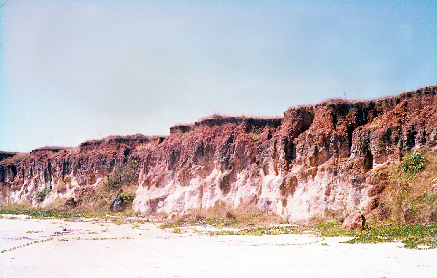 Bauxite section on kaolinitic sandstone (white) at Pera Head (detail of photo C 006.jpg). Bauxite deposit Weipa, Australia.